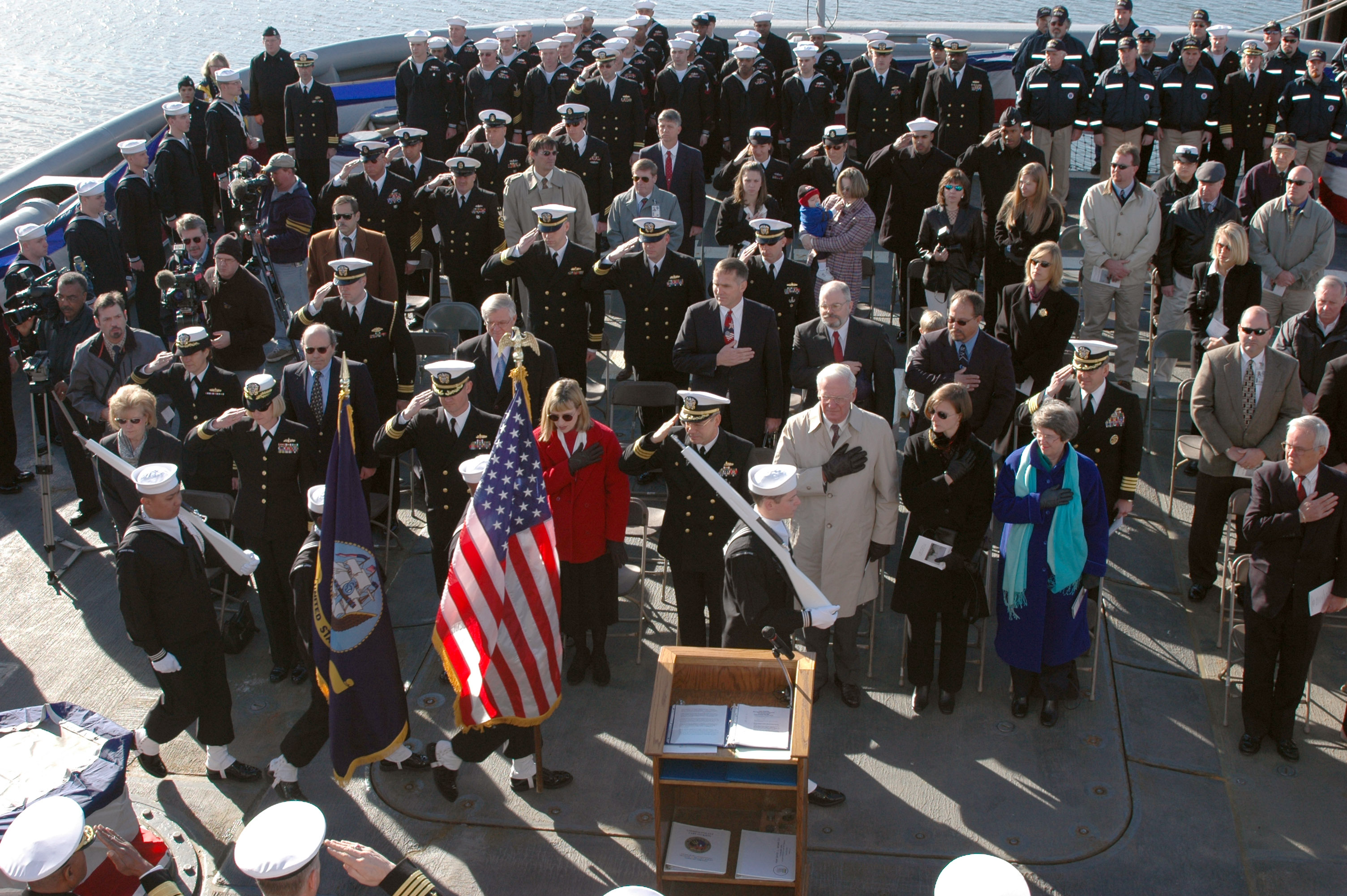 060119-N-5330L-027 Norfolk, Va. (Jan. 19, 2006) – Crew members and guest salute as the colors are paraded at the decommissioning and transfer ceremony of the salvage and rescue ship USS Grasp (ARS 51). Grasp will be transferred to the Military Sealift Command (MSC) where it will continue service to the fleet.